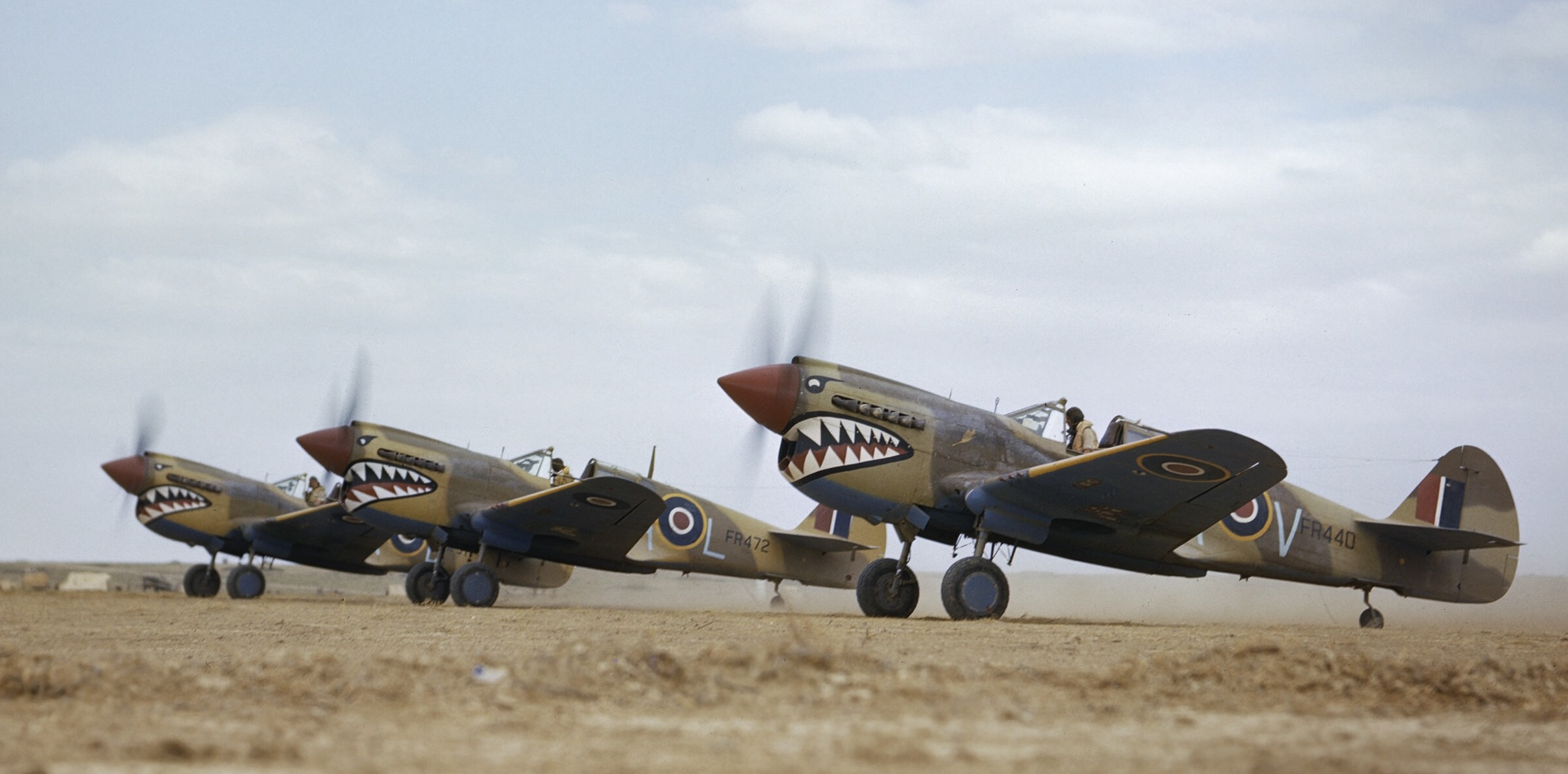 The Royal Air Force in Tunisia, May 1943 Three Curtiss Kittyhawk Mark IIIs of No 112 Squadron, Royal Air Force preparing to depart from Medenine on a sortie. The pilots of FR472 `GA-L' and FR440 `GA-V', are waiting for the section leader in the farthest aircraft to move out. All three Kittyhawks display the squadron's distinctive 'shark mouth' insignia.